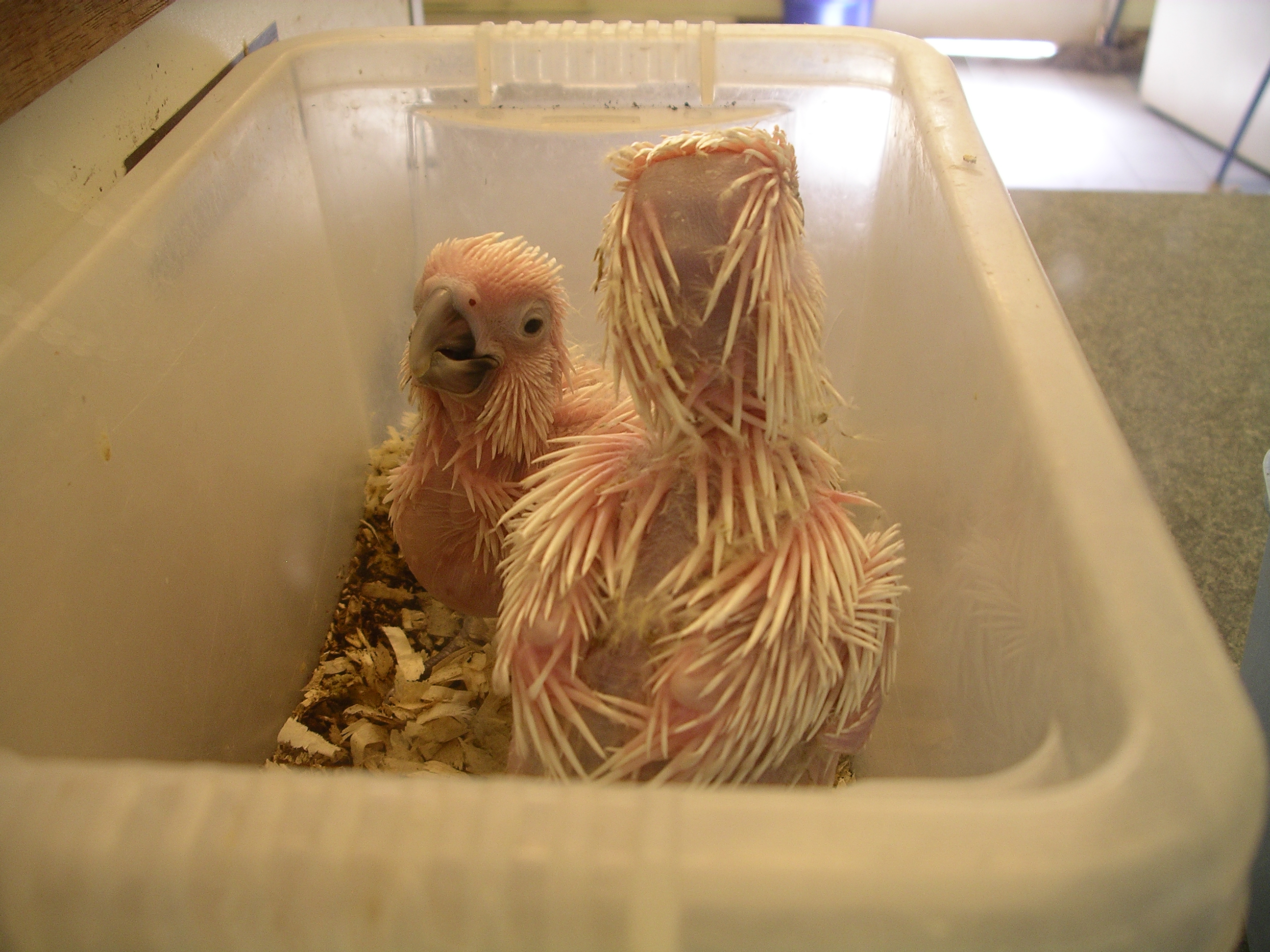 Two Umbrella Cockatoo chicks in Tropical Birdland, Leicestershire, England. They are being hand reared for the pet trade.